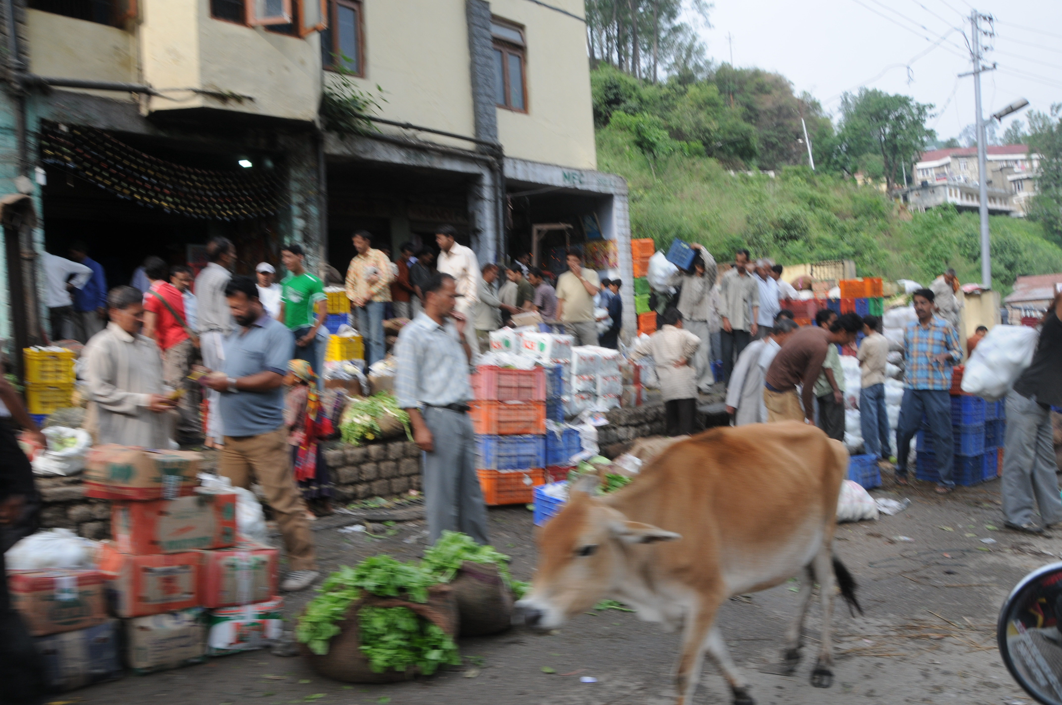 Mandi Vegetable Market, NH-21